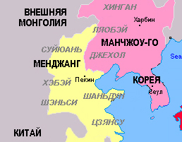 Modified version of Image:Japanese_Empire2.png showing Inner Mongolia in 1938.